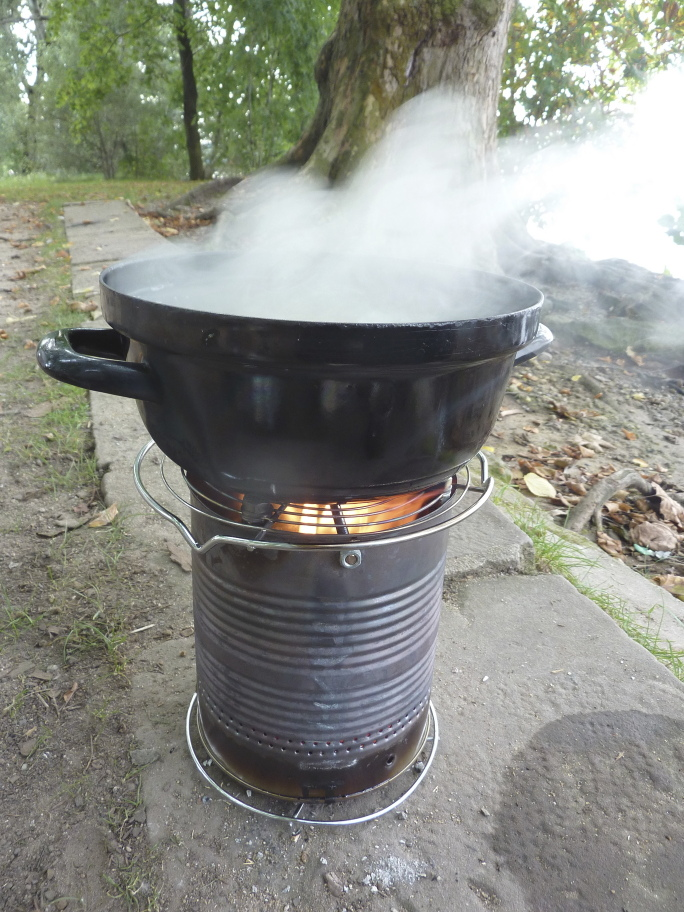 Cooking potatos on a DIY wood-burning hobo stove by the banks of the river Main in Frankfurt-am-Main.